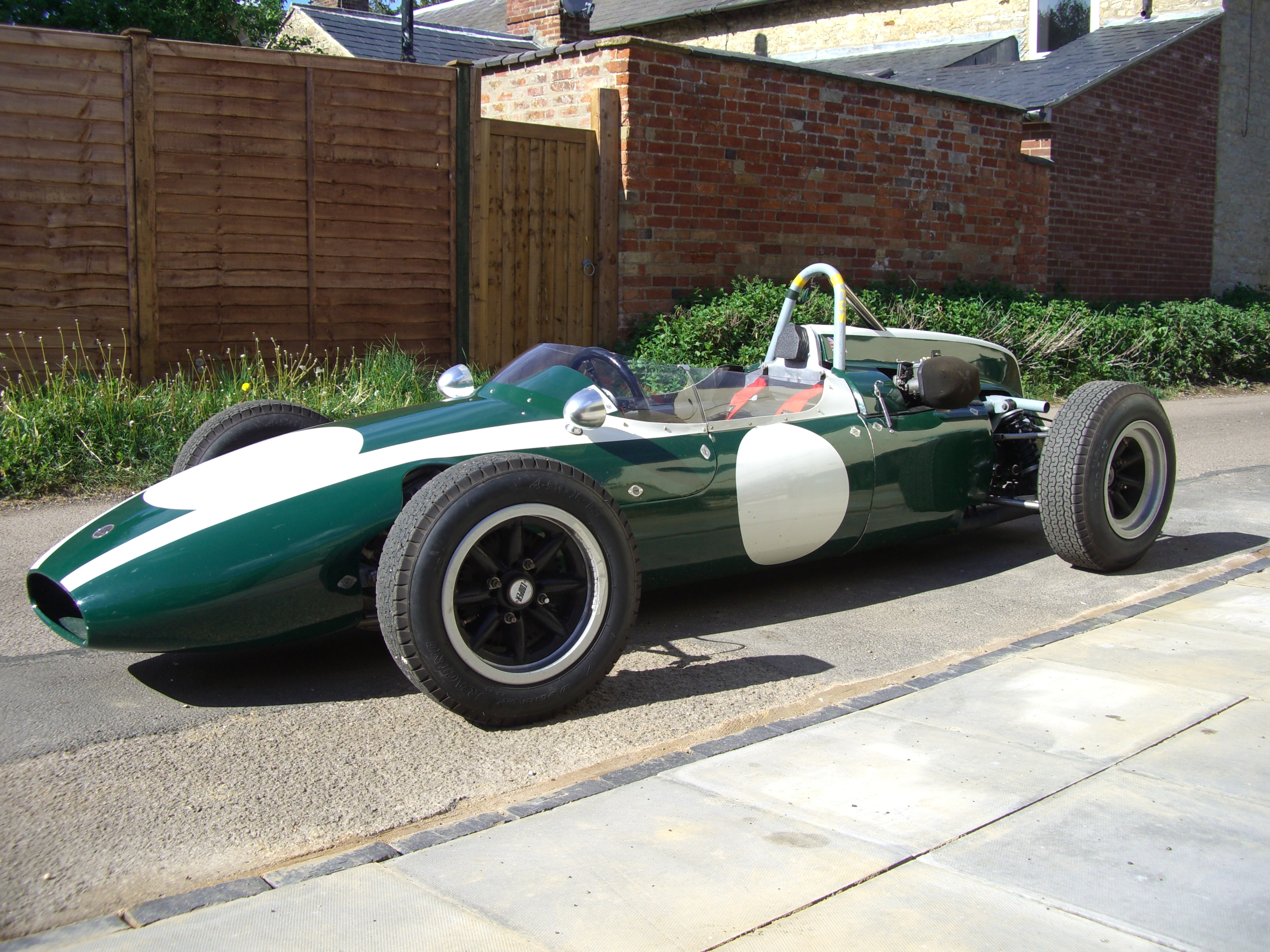 A Cooper T56 Formula Junior car, displaying the distinctive Cooper Car Company corporate racing livery of dark green with parallel longitudinal white stripes.